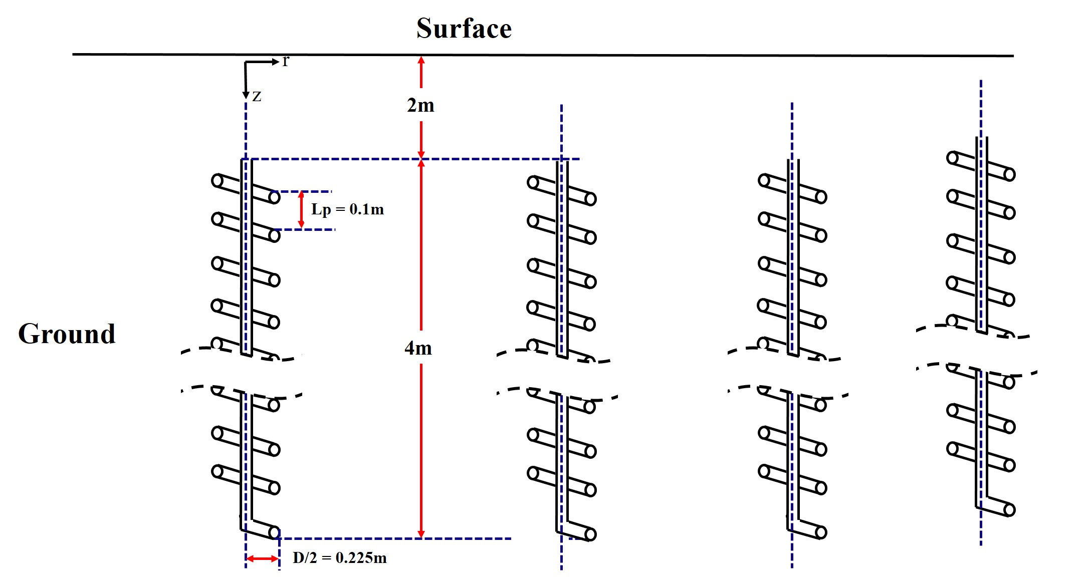 Schematic of series of spiral ground heat exchangers